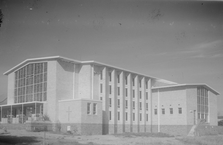 St. Francis Xavier Roman Catholic Church in Frankston, Victoria, Australia